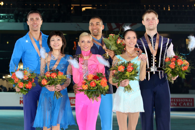 The pairs podium at the 2011 European Figure Skating Championships. From left: Yuko Kavaguti / Alexander Smirnov (2), Aliona Savchenko / Robin Szolkowy (1) and Vera Bazarova / Yuri Larionov (3)